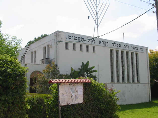 Central synagogue of the moshav